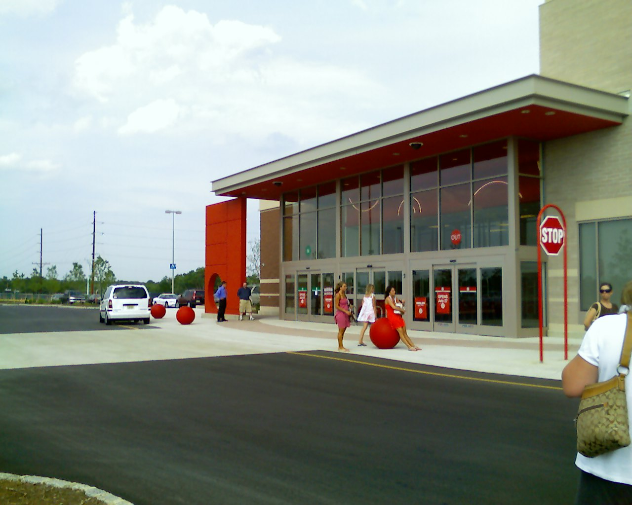 Manahawkin, NJ Target Opening Day - by LancerEvolution